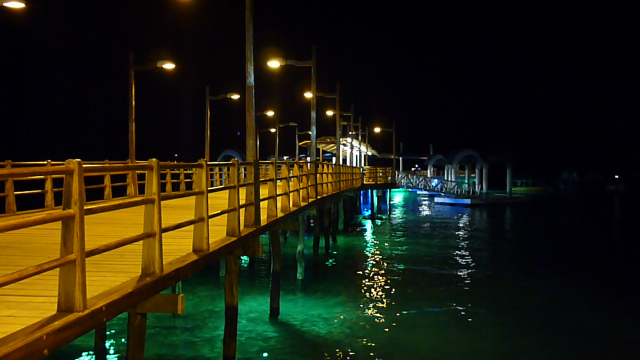 A night photo that was taken at the Puerto Ayora Dock - please note, no digital changes have been made to this photo - this is the original image - PUERTO AYORA IS A MAGNIFICENT PLACE IN THE GALAPAGOS ISLANDS - YOU MUST VISIT ! - PHOTOGRAPHED BY David Adam Kess